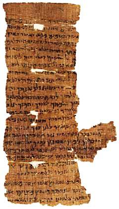 Papyrus Nash, fragment of the Ten Commandments and the Shema Yisrael prayer, found 1930 in Egypt